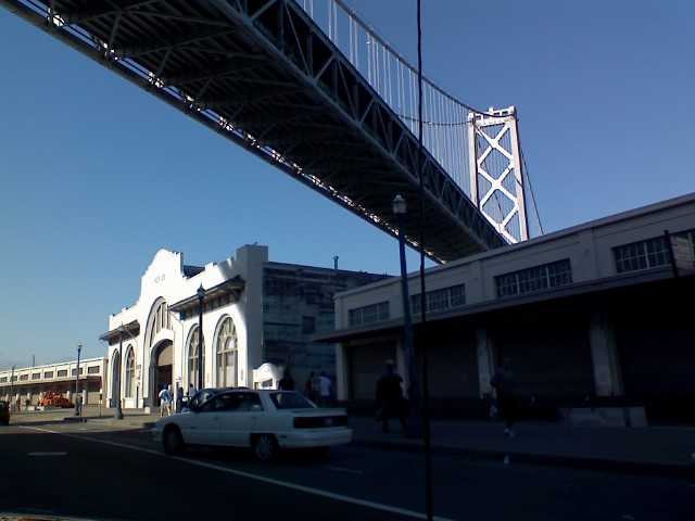 the Bay Bridge from The Embarcadero in San Francisco, California. The picture was taken on August 23,2007